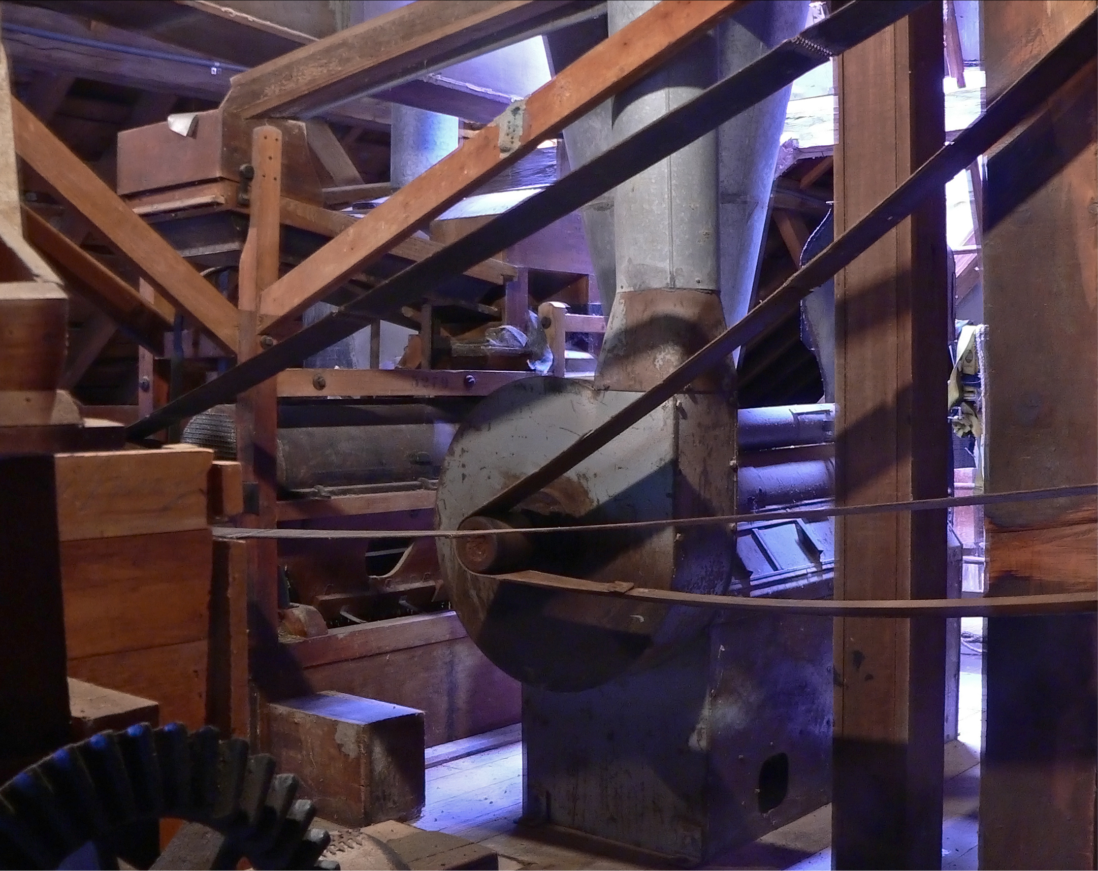 Belt driven equipment inside Bear's Mill near Greenville, Ohio.